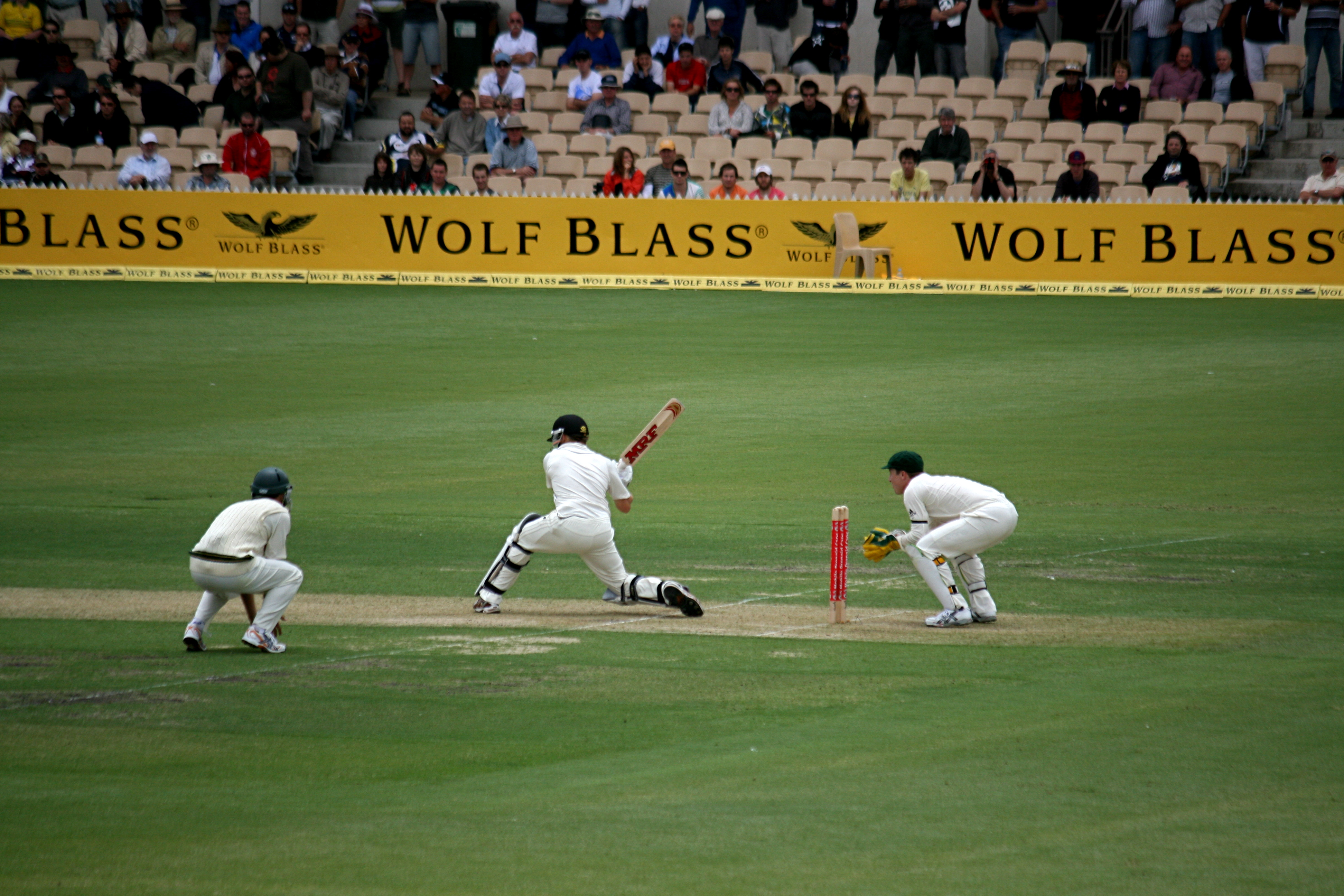 A New Zealand six in the making for Aaron Redmond... spin bowler Nathan Hauritz, with Simon Katich in position at short leg, picked a rather poor time to bowl one short. Unfortunately can't see the ball in any of these shots but I'd be counting my ears if I were Simon Katich. 2nd Test Match, Australia vs New Zealand, Adelaide Oval, South Australia. Photo sequence Photo 1 Photo 2 Photo 3